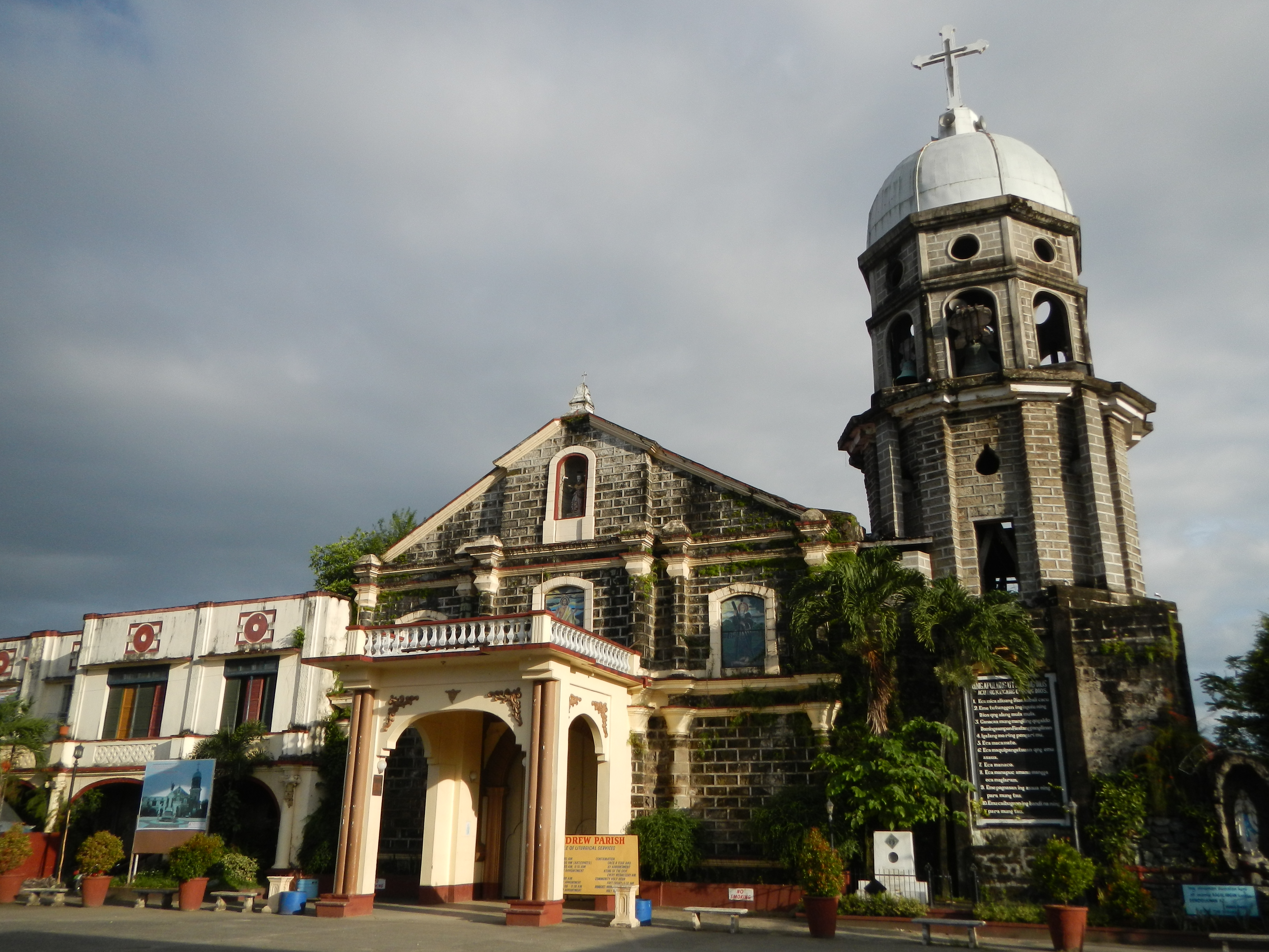 Candaba, Pampanga[1]